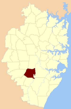 original location of the parish within Cumberland County, New South Wales (Sydney area)